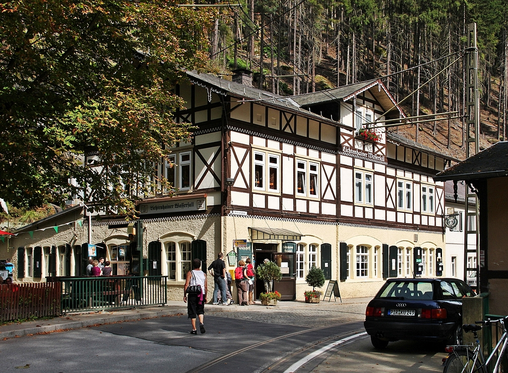 This image shows the restaurant Lichtenhainer Wasserfall in the valley of the river Kirnitzsch in the Saxon Switzerland.